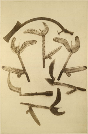 Different African throwing knives of the Zande tribe